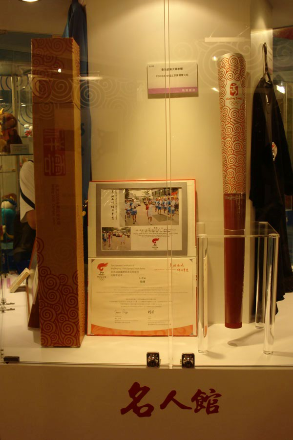 The Olympic Torch of 2008 Olympic Game, full set belonged to Li Fai (李暉) , number 97 torchbearer in Hong Kong